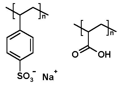 Image of example structures of polyelectrolytes. I created the image myself and release it into the public domain.